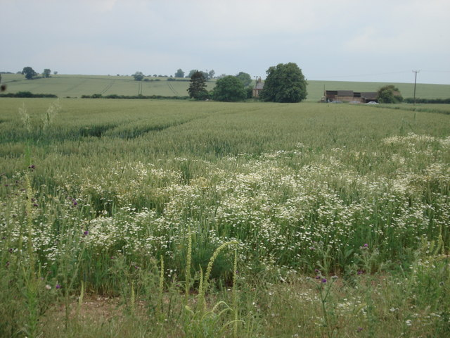 Rectory Farm, Brampton Hut